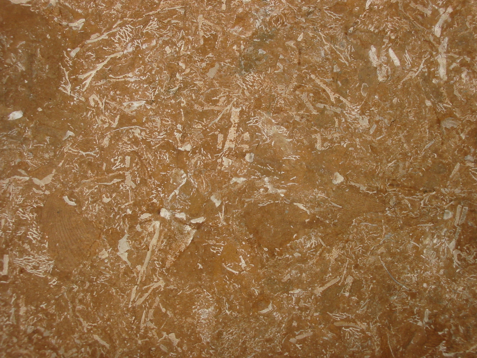 Photographer: Siim Sepp Date of the creation: 20th April, 2005. Kukersite is shale oil from Estonia, Ordovician system.